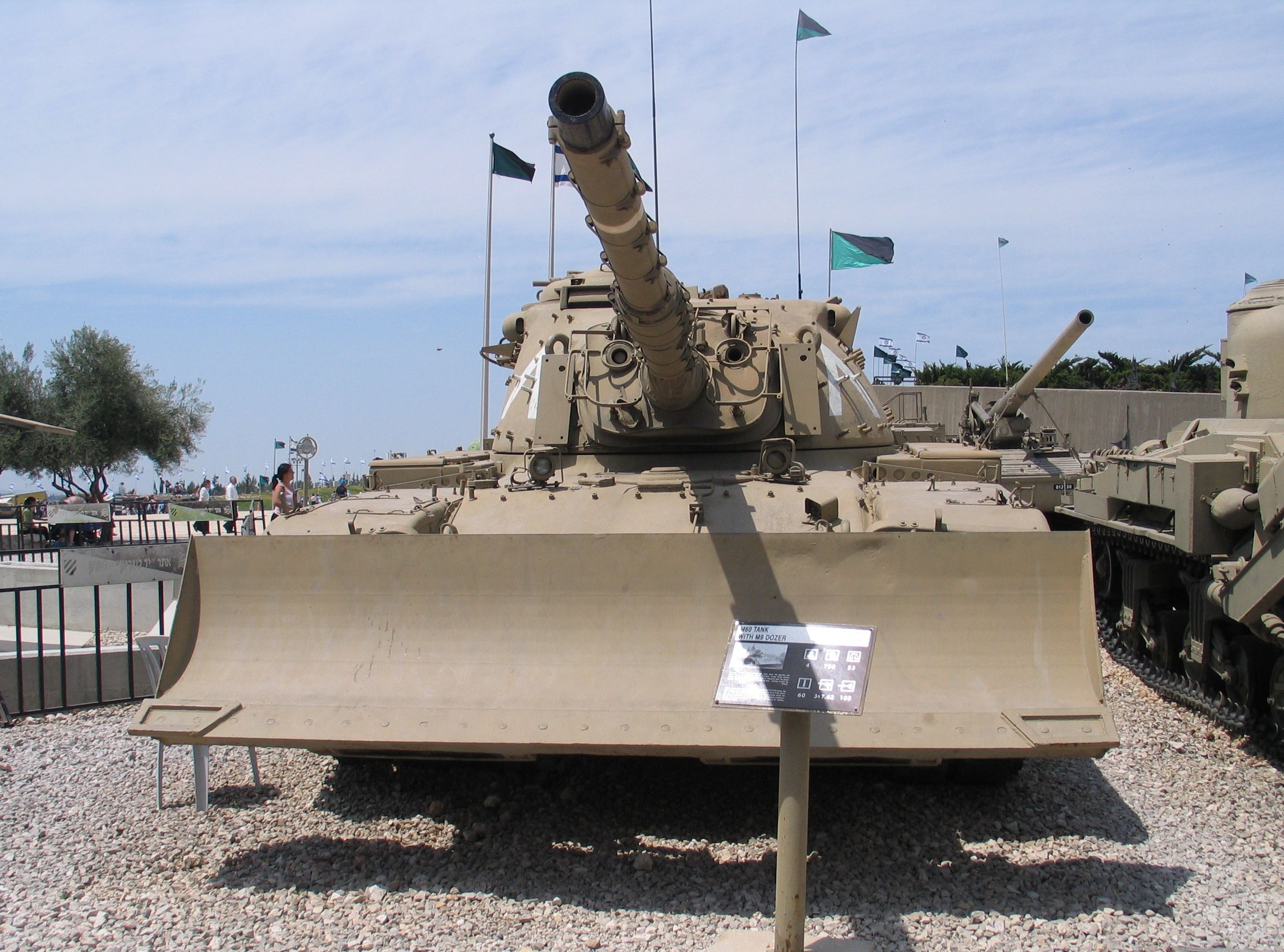 M60 Patton with M9 dozer blade in Yad la-Shiryon Museum, Israel.